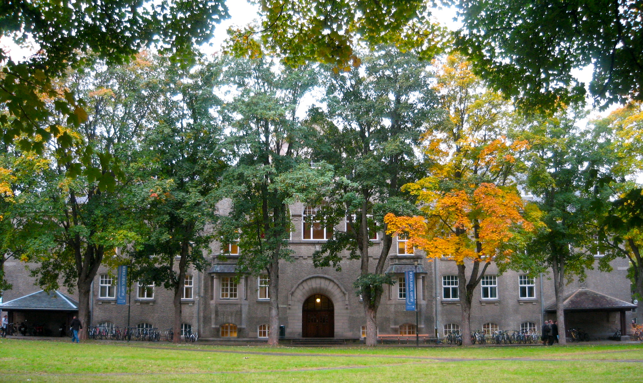 "Gamle elektro" (=Old electro...technical laboratories). One of the first four buildings of NTH, now Campus NTNU Gløshaugen, Trondheim. Erected 1910. Architect: Bredo Greve